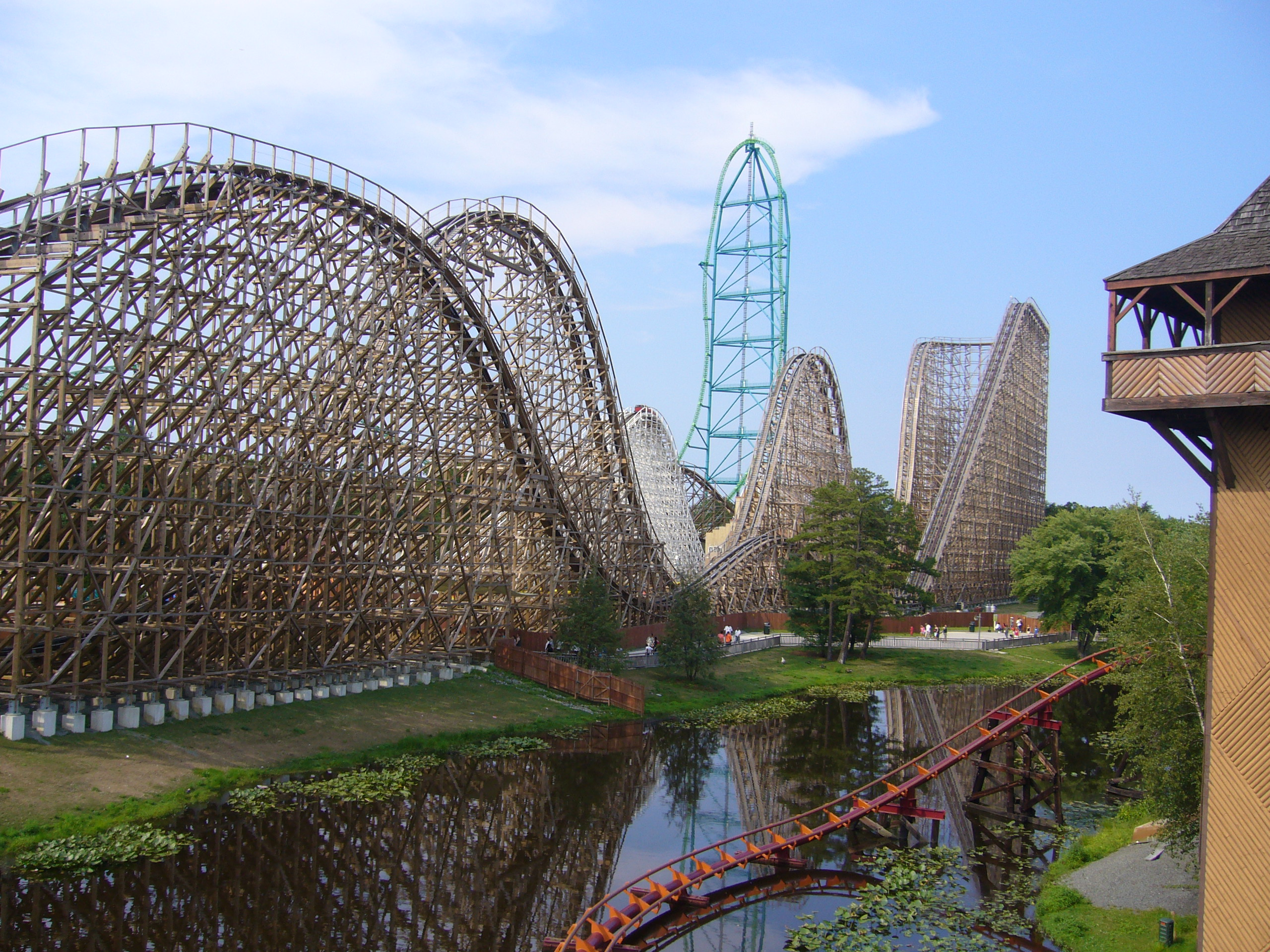 El Toro and Kingda Ka